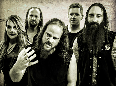 Melodic Death Folk Metal Band Australia